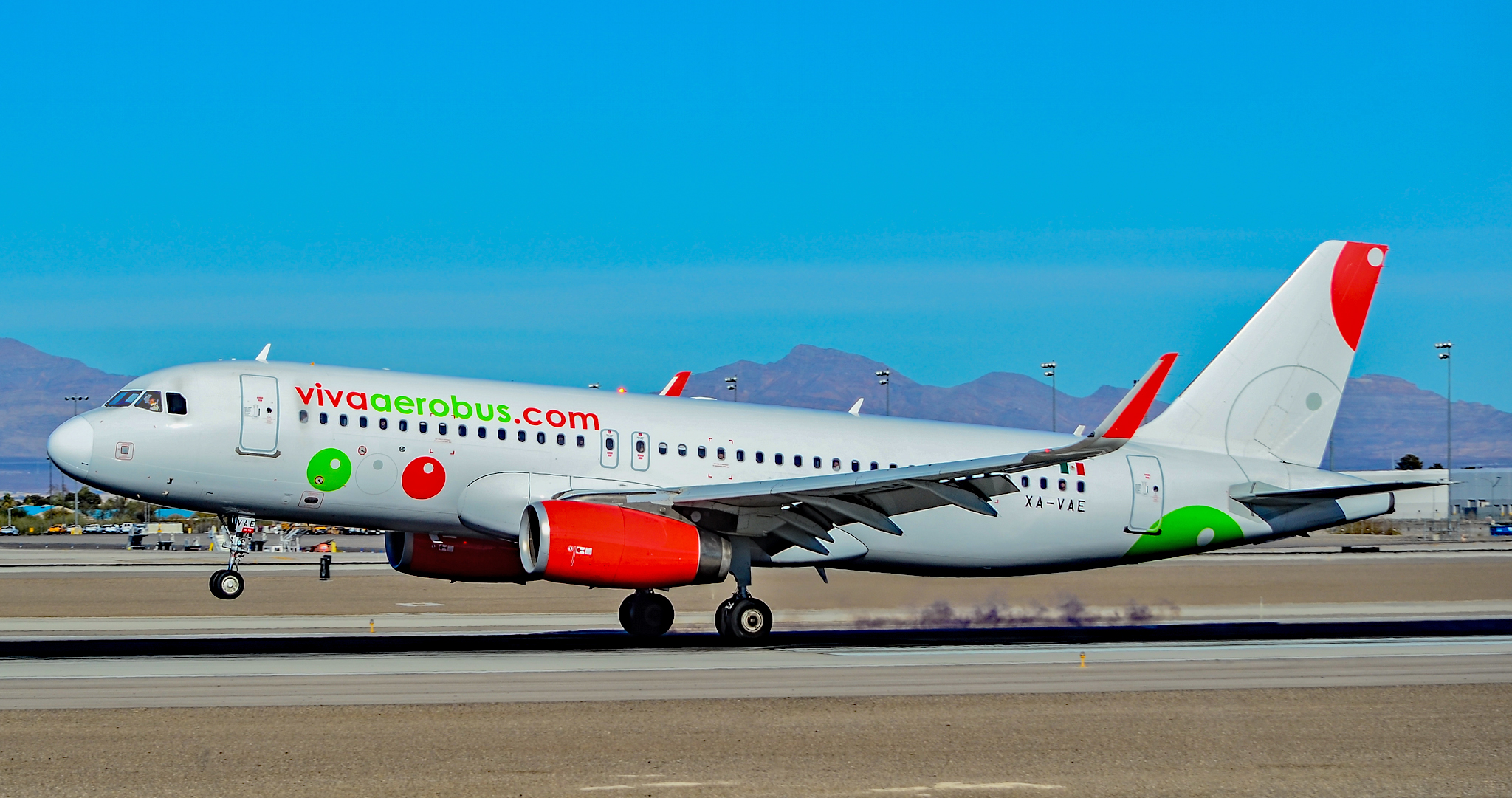 Las Vegas - McCarran International (LAS / KLAS) USA - Nevada, January 7, 2018 Photo: Tomás Del Coro